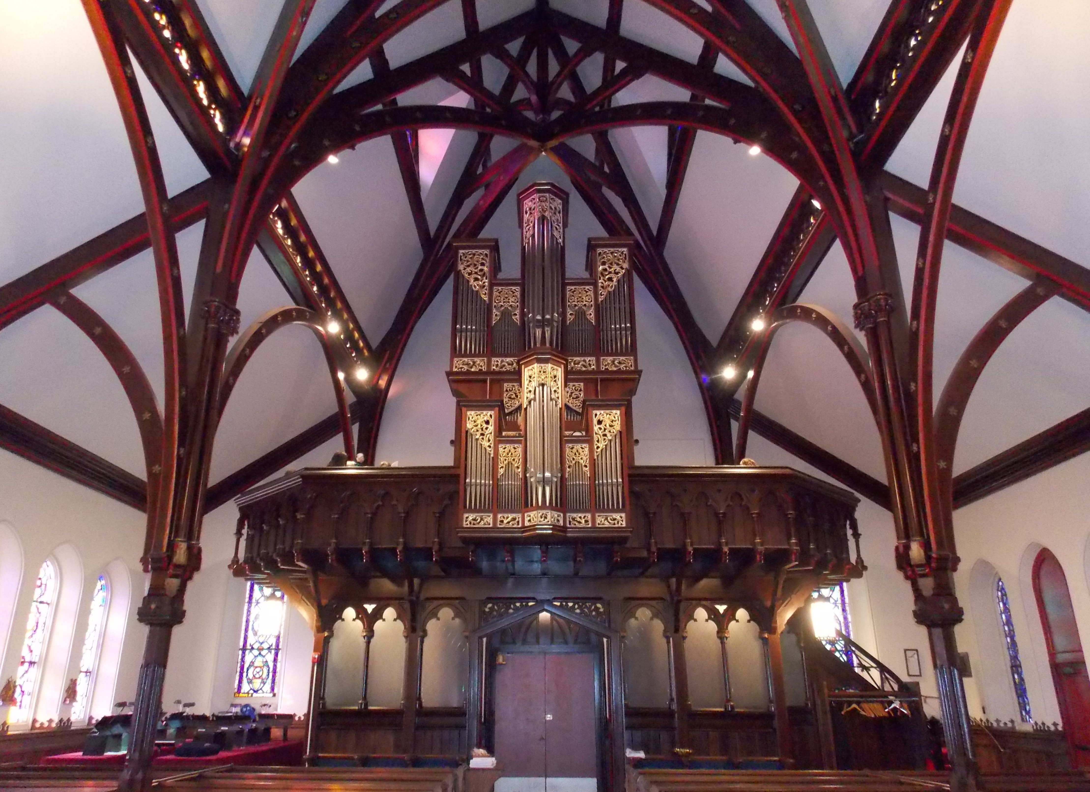 The gallery in Trinity Episcopal Cathedral, Davenport, Iowa